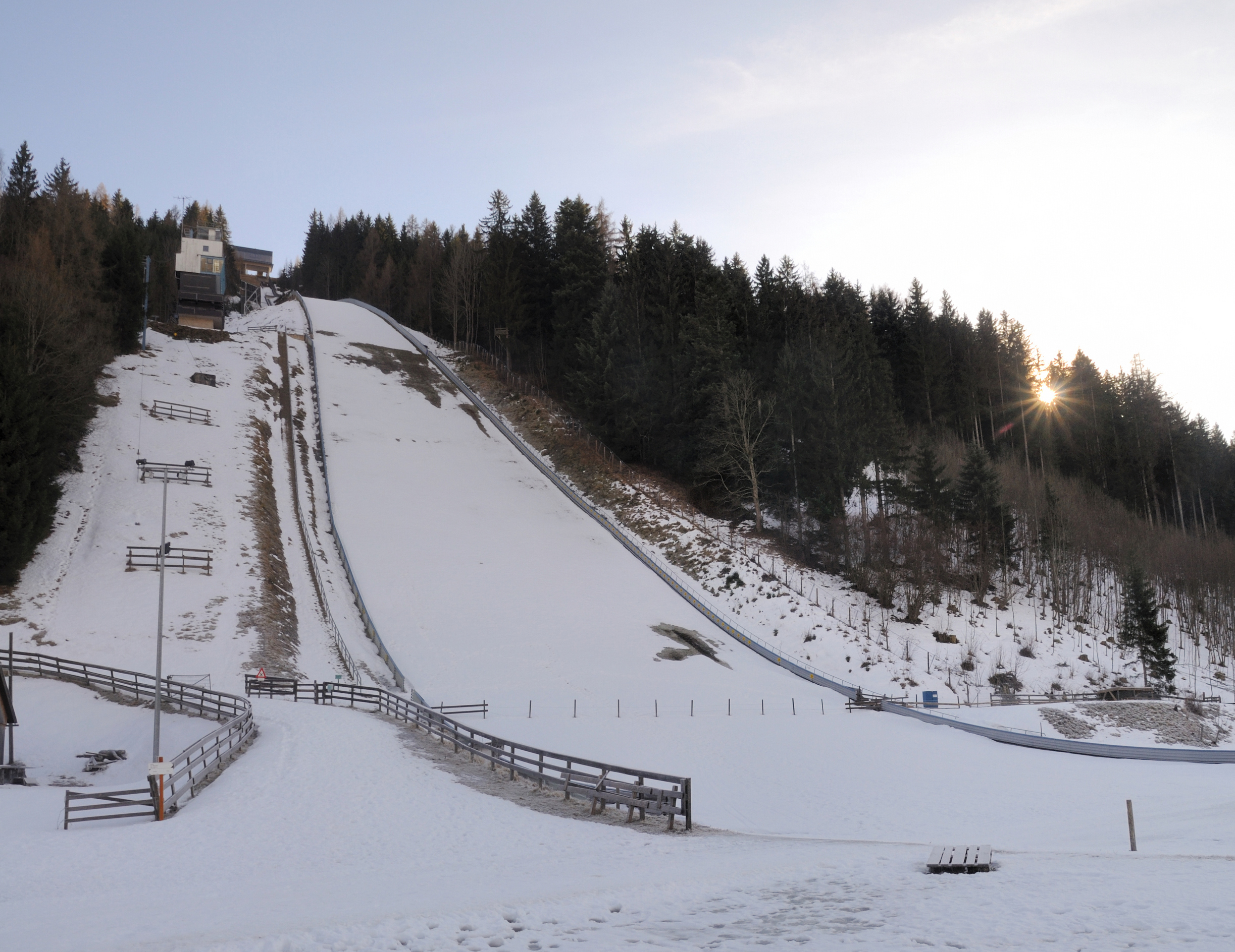 Ski jumping hill, Kulm